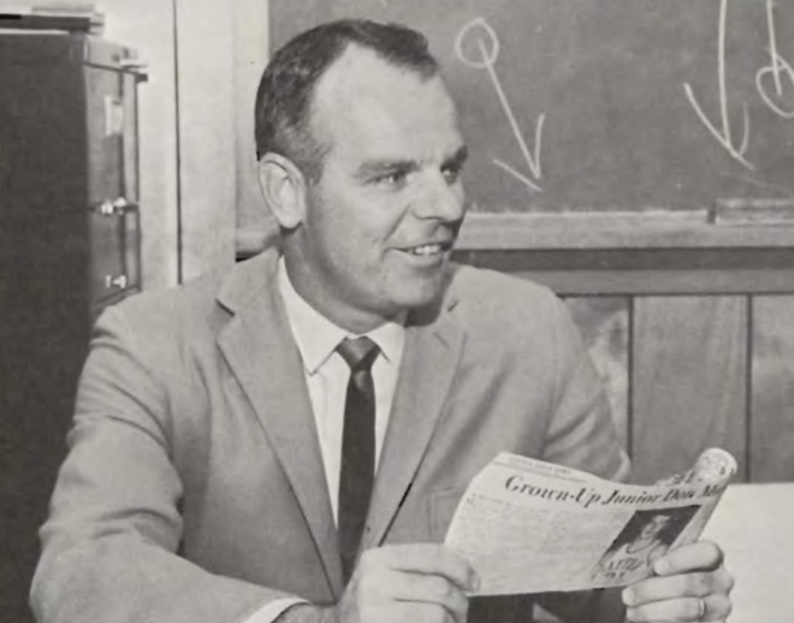 University of Toledo Rockets basketball coach Bob Nichols from the 1967 “Blockhouse” yearbook.